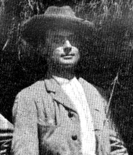 Edward Marsh in Africa in 1907. Cropped Version